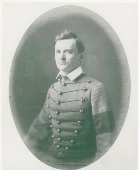 Charles E. Hazlett, West Point's Class of 1861; assigned as a 2nd Lieutenant in the 2nd United States Cavalry; promoted to the rank of 1st Lieutenant and transferred to Battery D, 5th United States Artillery. West Point Class Album